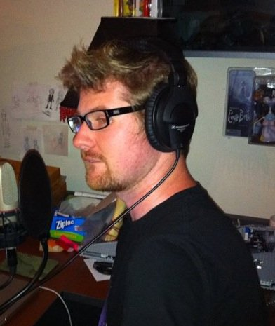 A photo of Justin Roiland